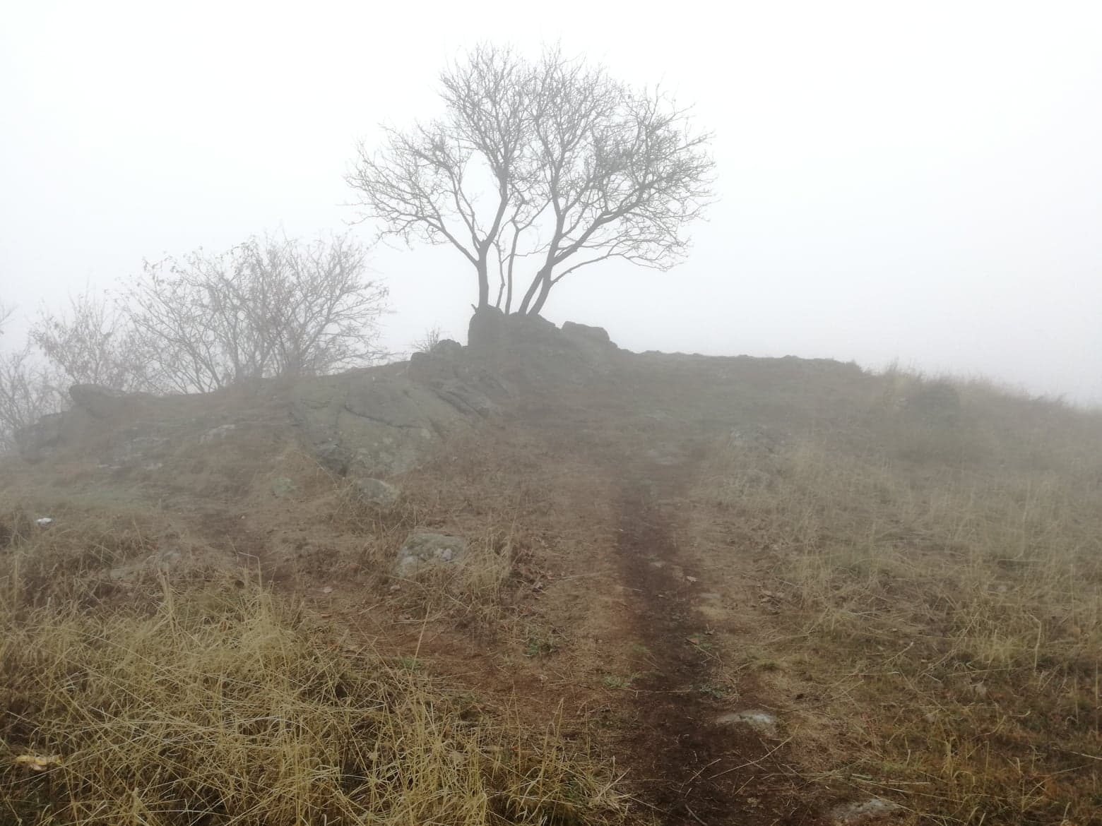 Way to Holý vrch u Hlinné